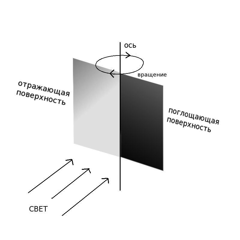 Need to be converted to SVG